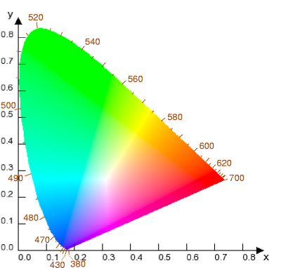 Added wavelength indication to the original: image:Cie_chromaticity_diagram.png. I'm not so good with the GIMP; the file has grown bigger. Copyright: see the original which was not created by me. (My modifications are PD - Han-Kwang (talk) 12:39, 13 Dec 2004 (UTC))